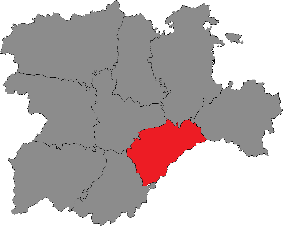 Cortes of Castile and León district of Segovia.